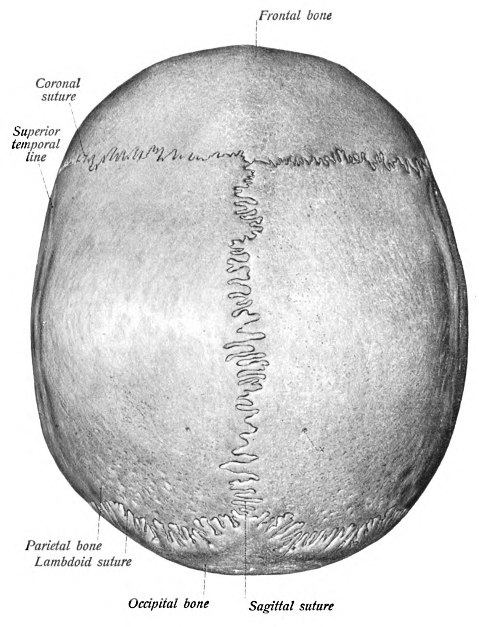 An illustration from the 1909 American edition of Sobotta's anatomy with English terminology